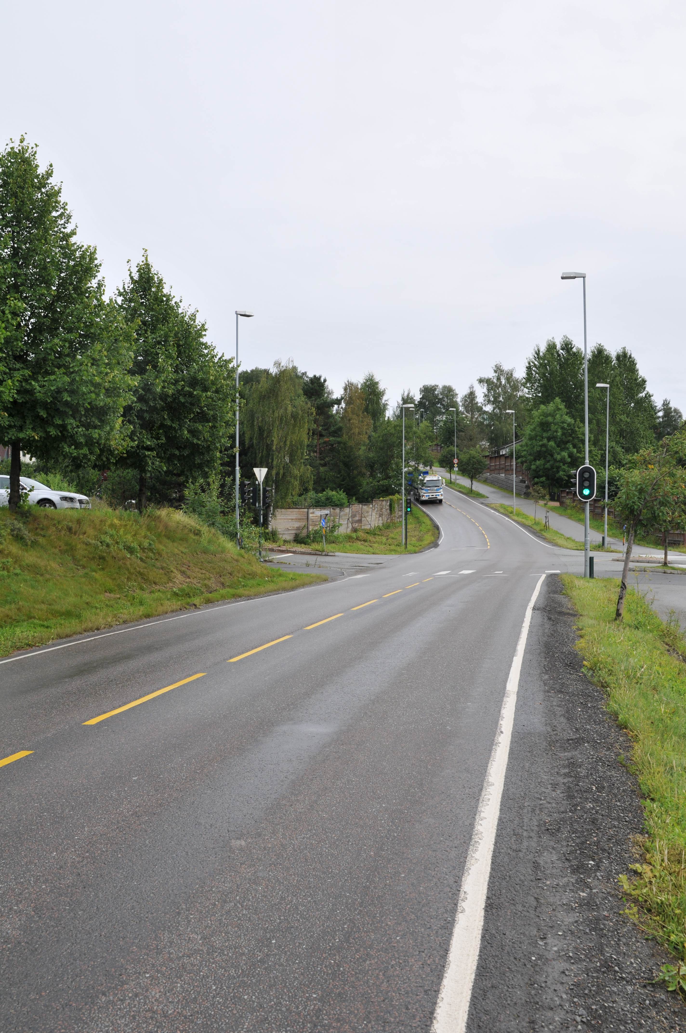 Røykenveien in Heggedal where it intersects with Øvre Gjellum to the left and Vollenveien to the right. The view is towards Røyken.